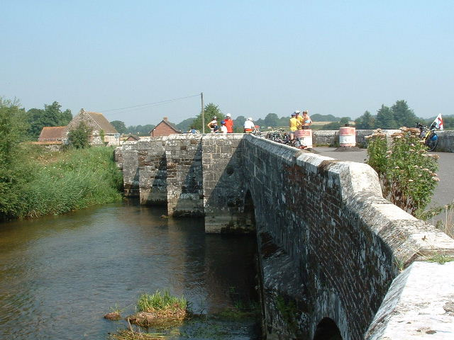 Wool Bridge. North of Wool, crossing the river Frome.